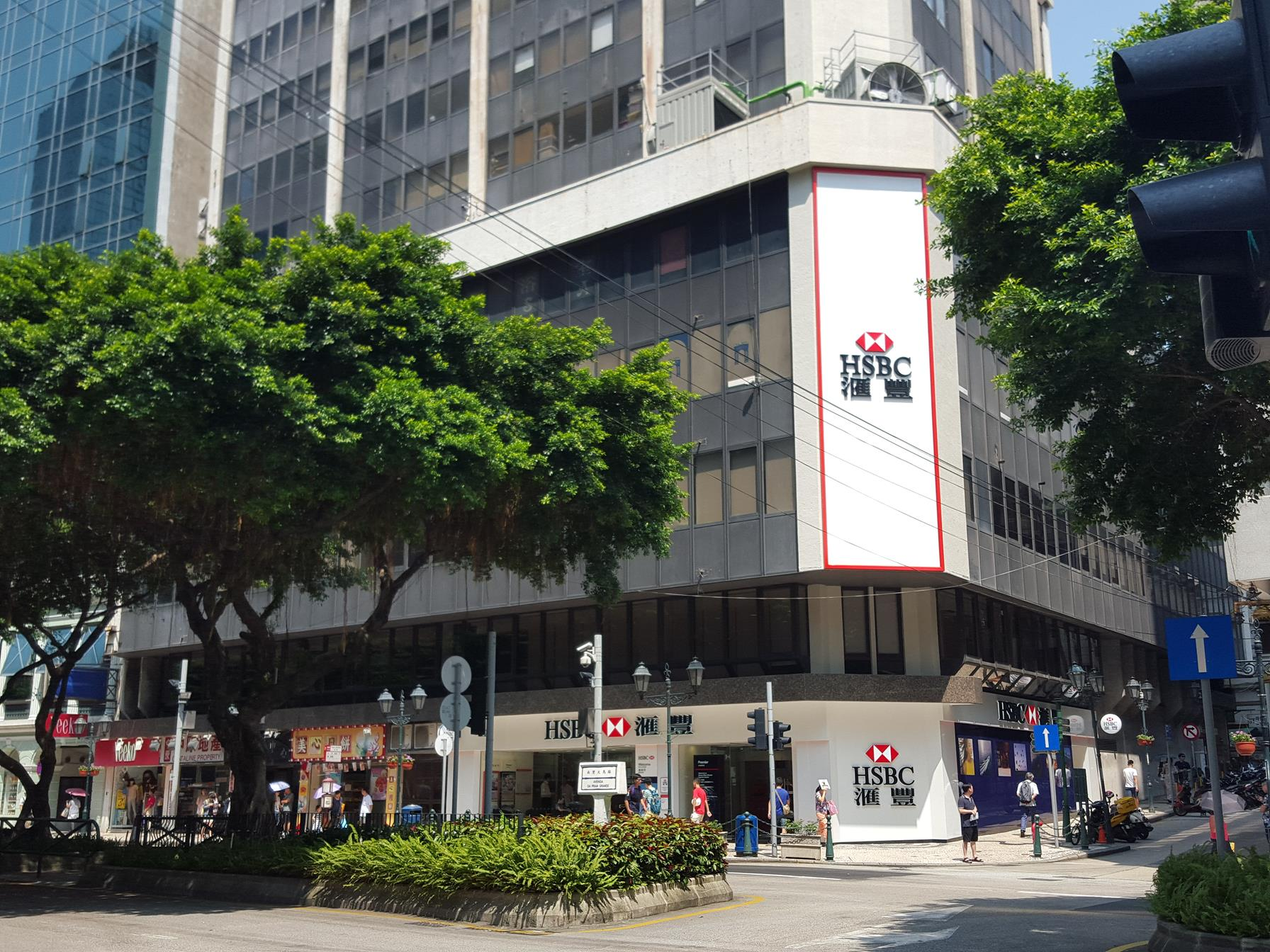 HSBC Macau Headquarter